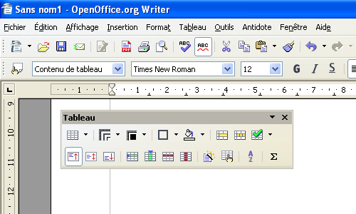 Palette window